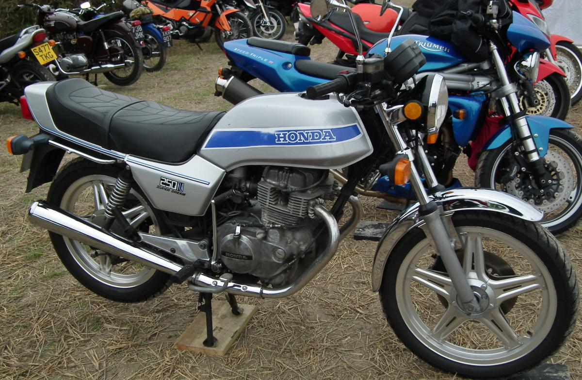 Honda 250N Super Dream at Kop Hill in 2013